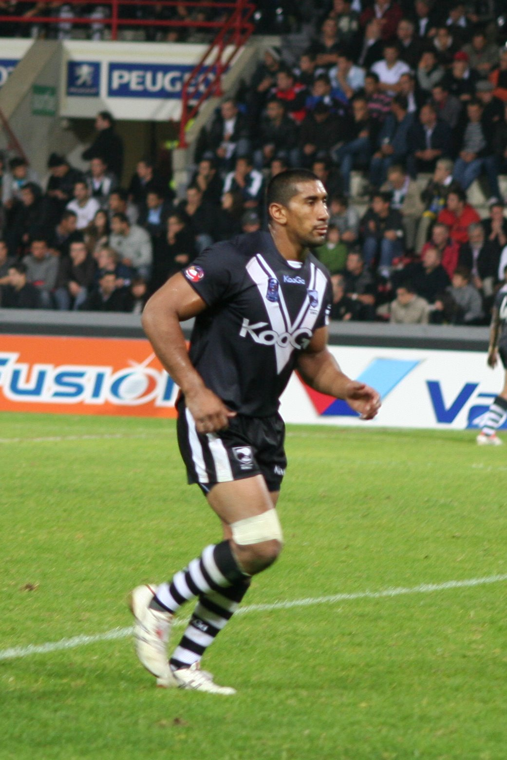 Iosia Soliola, New Zealand rugby league player